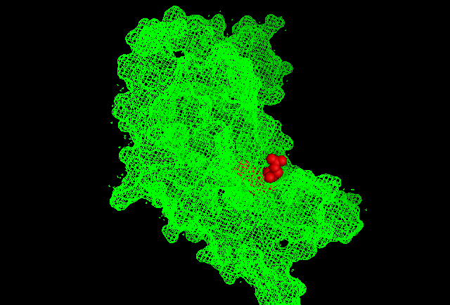 Chorismate synthase showing only one of the four monomers that combine to form the molecule. FMN is shown in red interacting with the molecule.